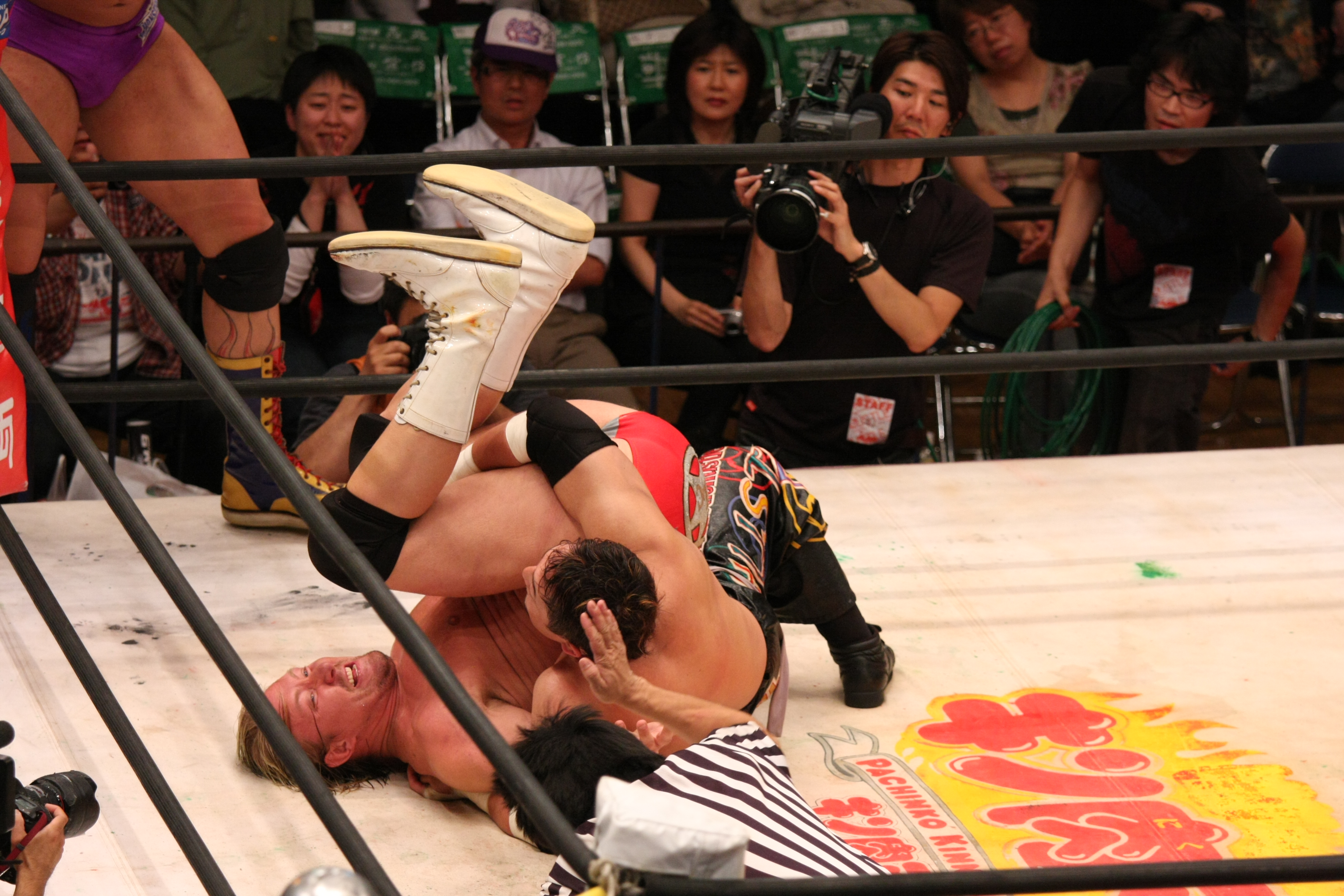 Professional wrestler Tajiri utilising a roll-up pin on Lance Cade at a HUSTLE show on May 27, 2009.